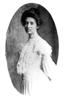 Mary Colter (23 years old), (April 4, 1869 – January 8, 1958), American architect and designer